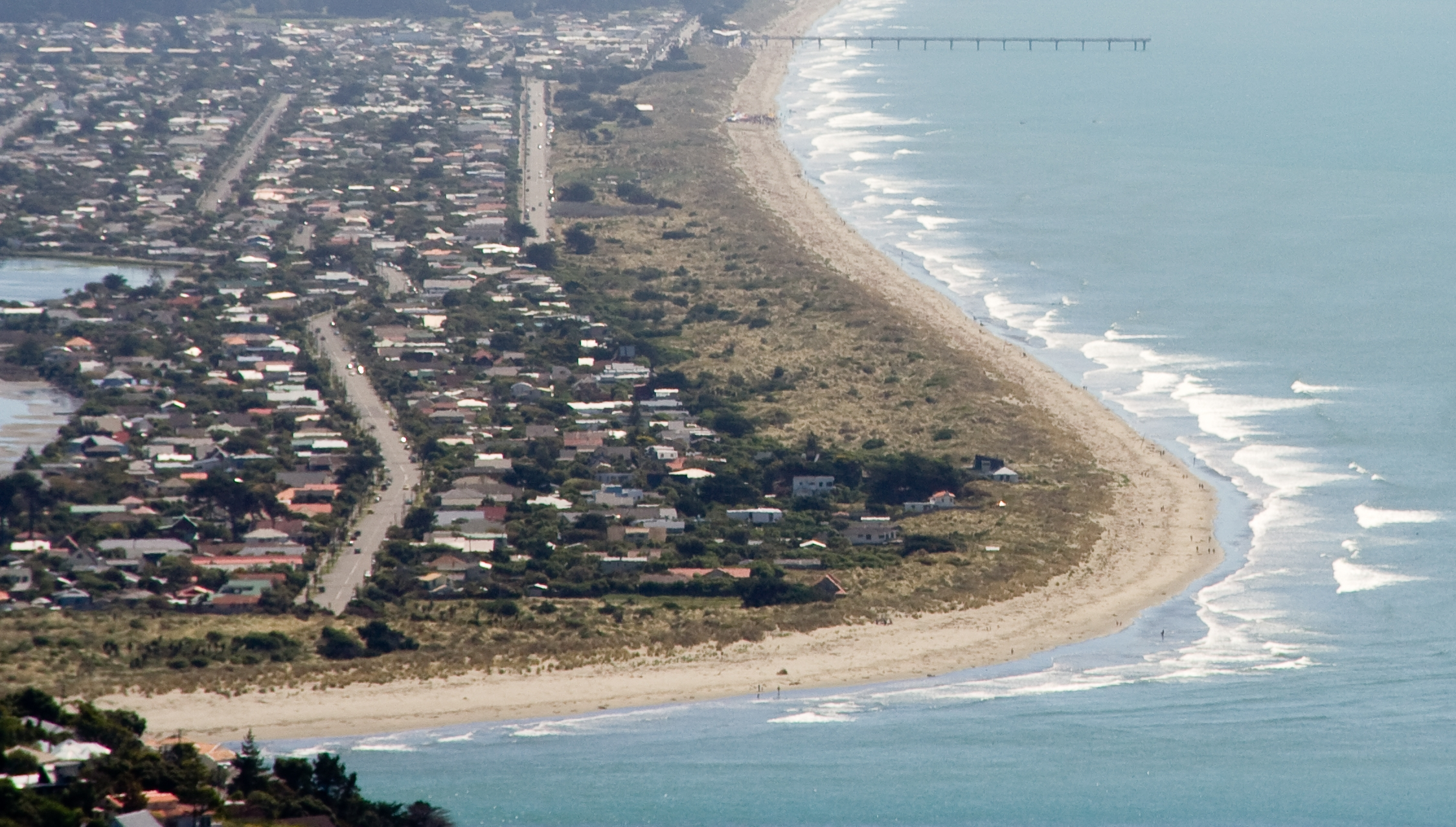 View of Southshore and South New Brighton.